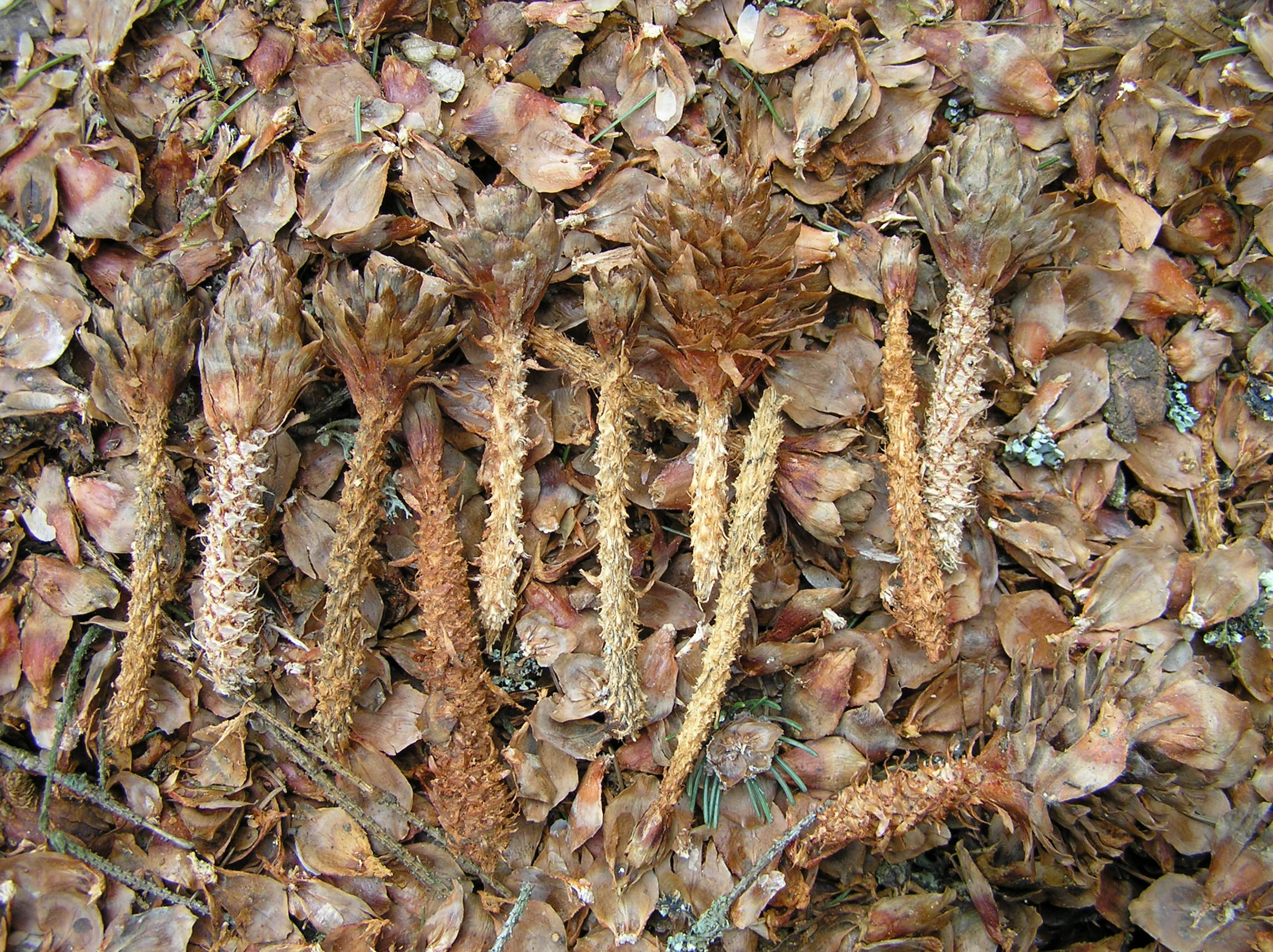 Sciurus vulgaris as damaging factor, Białowieża forest, Poland